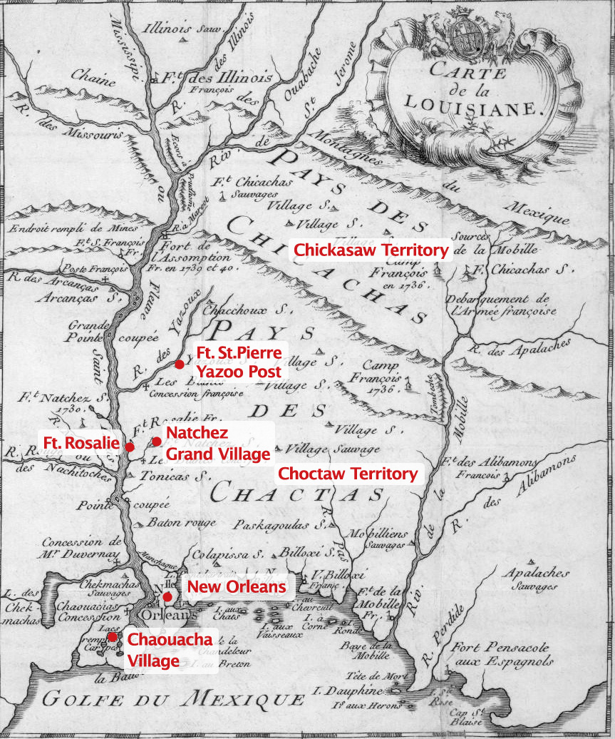 "Carte de Lousiane" from Dumont de Montigny (1753), "Mémoires Historiques sur la Louisiane". Annotated to show main locations relating to the Natchez Massacre. Bibliothèque Nationale de France, This image was created with Adobe Photoshop.